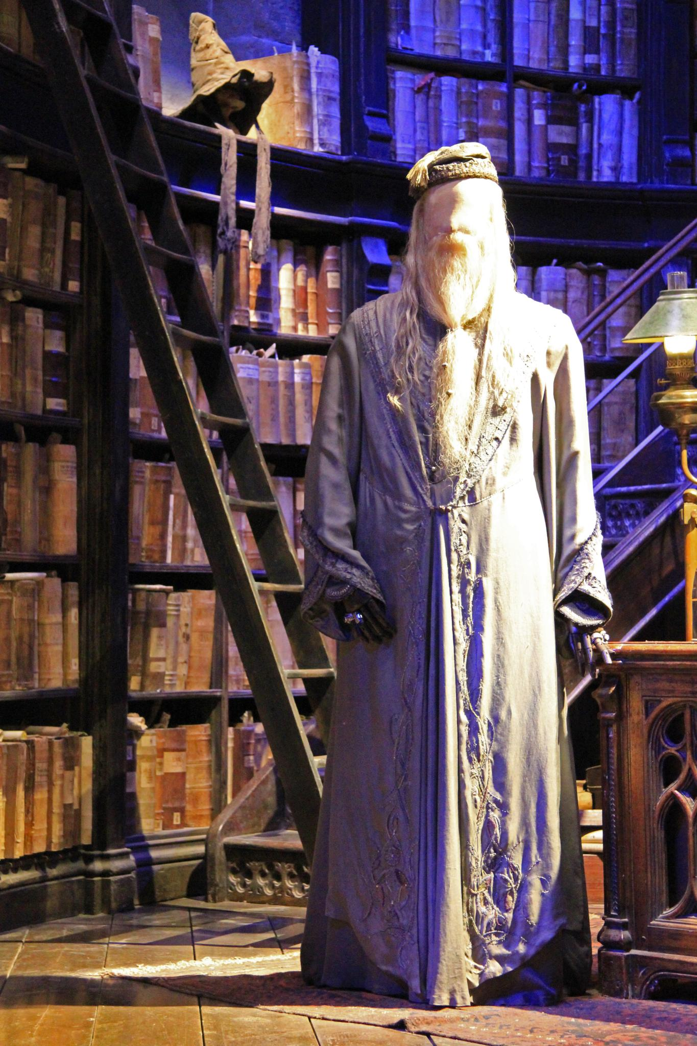 Warner Bros. Studio Tour London: The Making of Harry Potter.